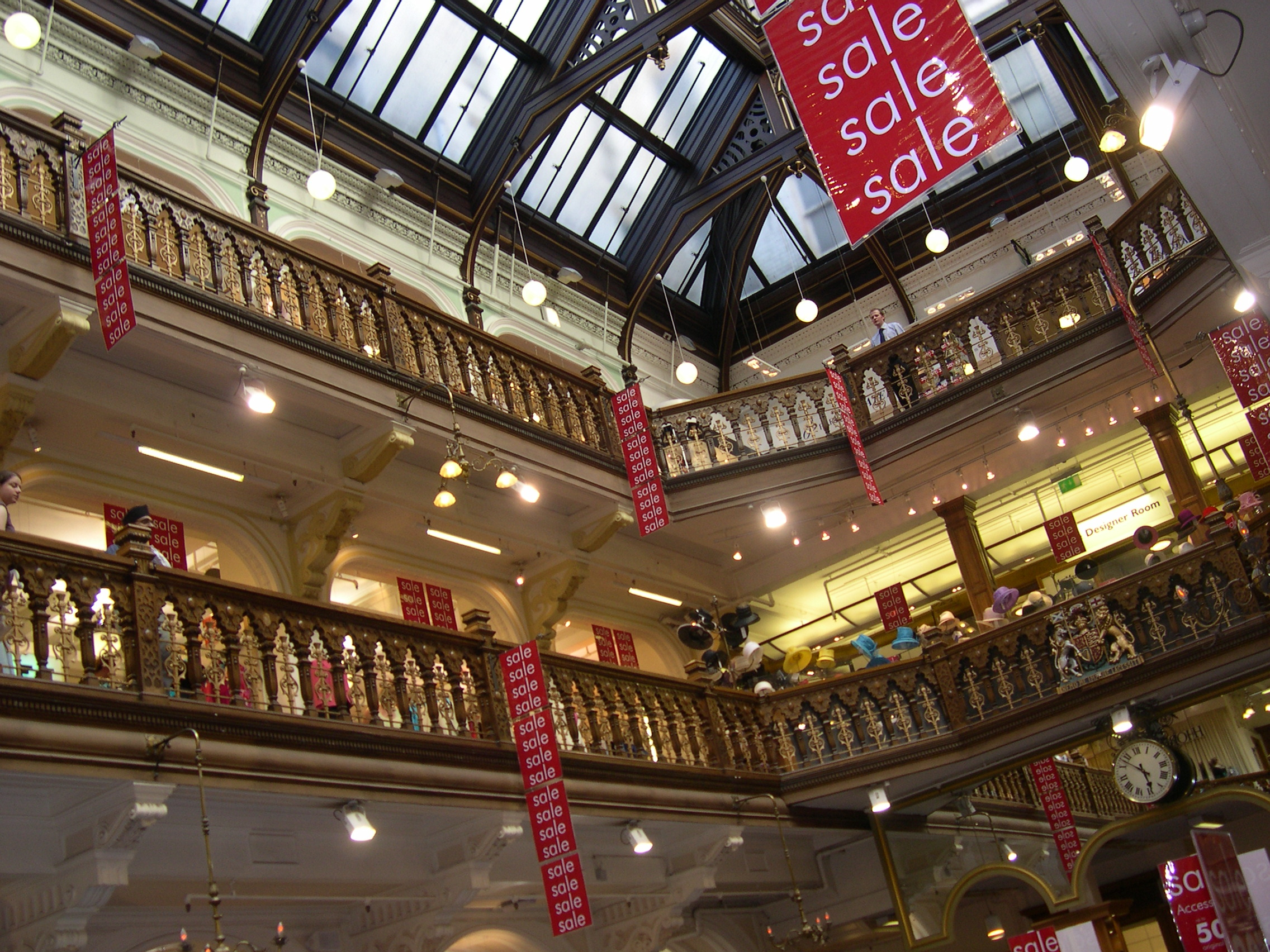 Interior of Jenners Department Store, Edinburgh, Scotland.